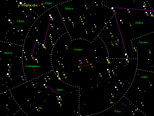 A trapezoidal asterism within the constellation Octans, useful for locating Sigma Octantis. Edited from the wikipedia image:Octans 01.gif by user:Anthony Appleyard